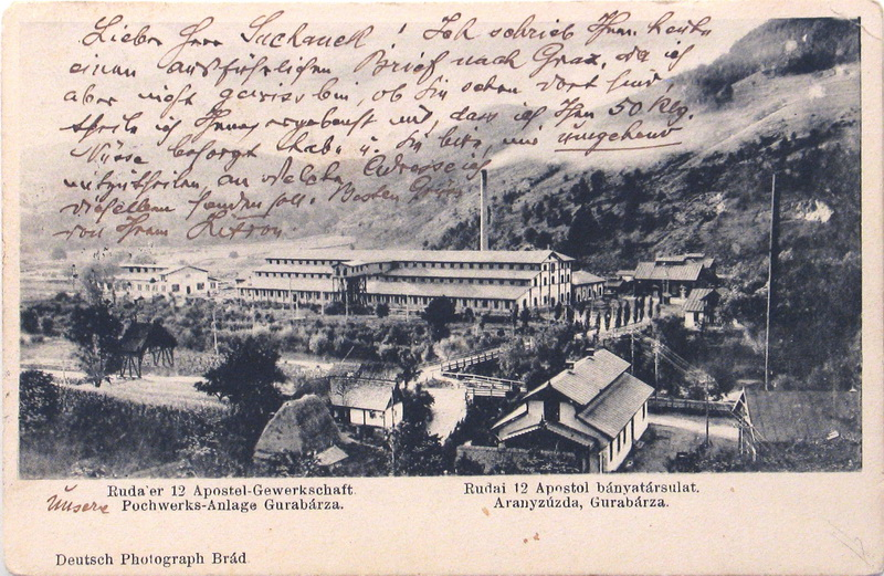 gold ore mill in Barza/Gurabárza, near Brad